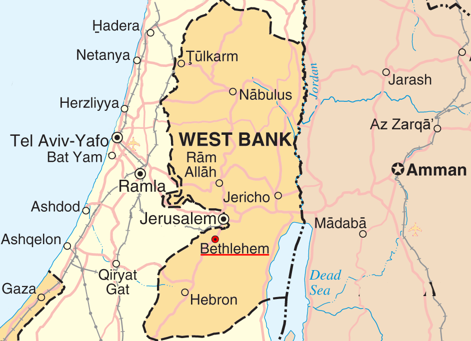 The location of Bethlehem in the West Bank, with major Israeli and Jordanian cities shown to show Bethlehem's relative location in the region.